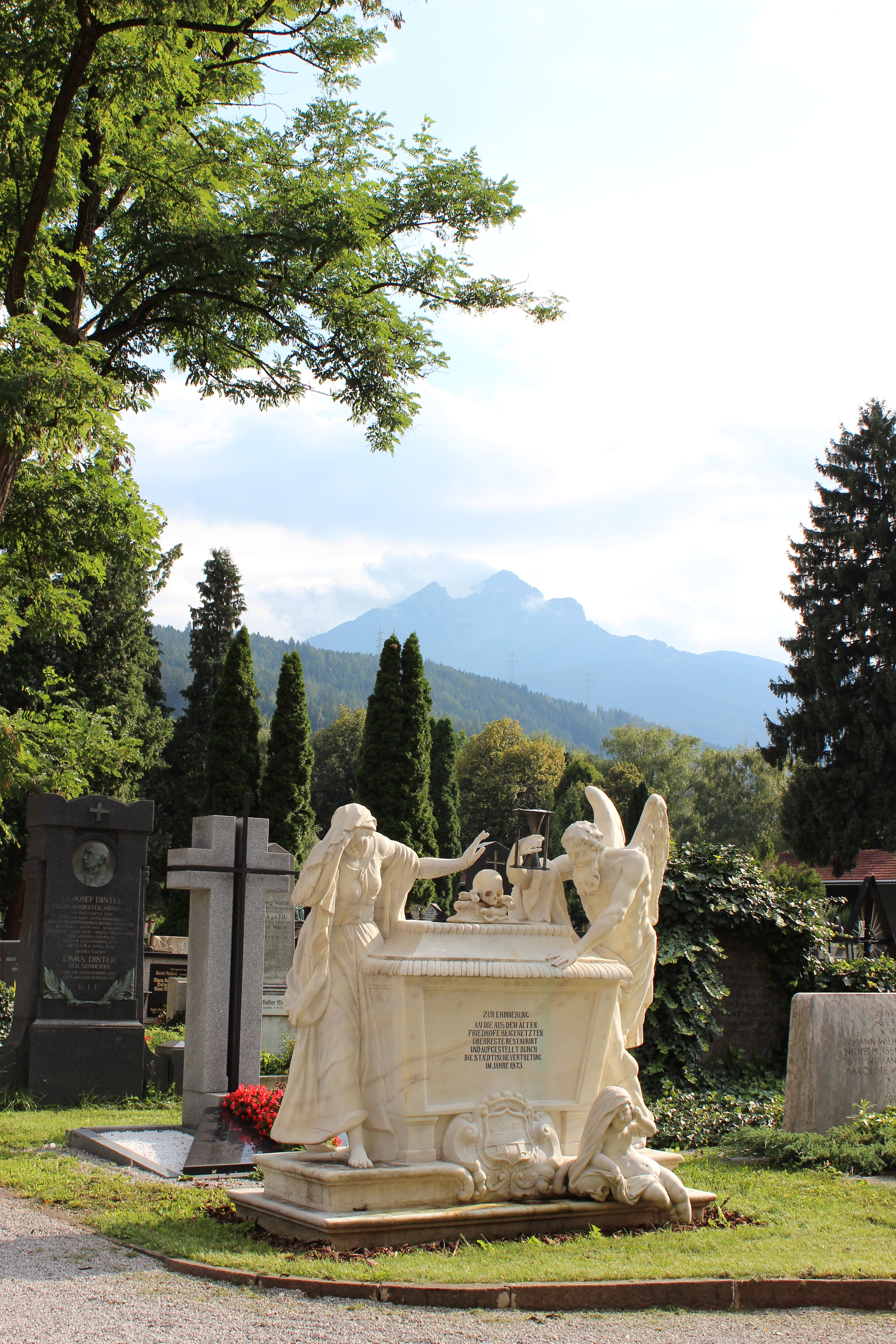 Monument in the Westfriedhof in Innsbruck in remembrance of the human remains from the old cemetery from 1873